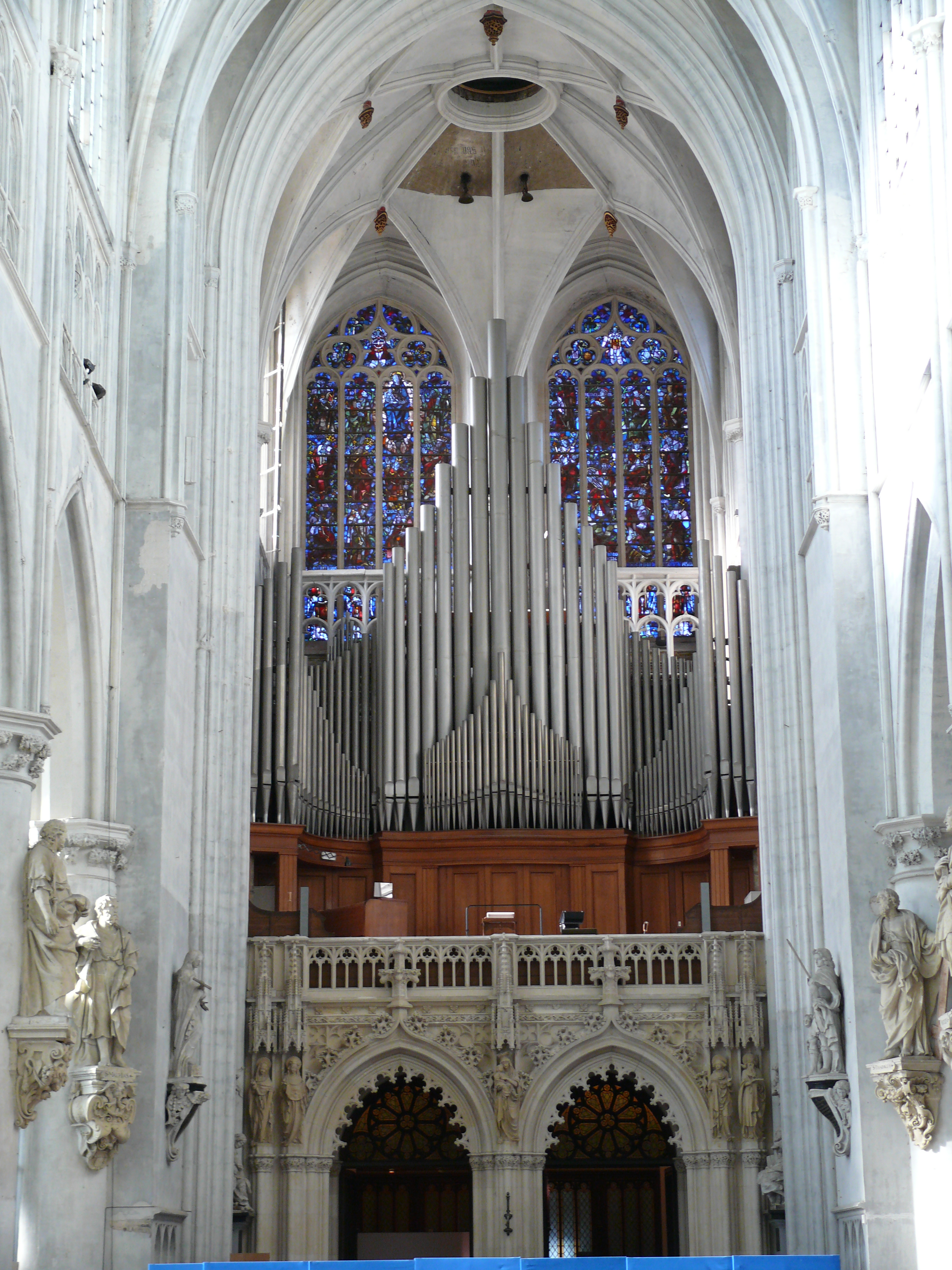 The rood screen under the tower of St-Rumbold's Cathedral in Mechelen (Belgium) is in Gothic Revival style. It was added in 1854 according to the plans of architect Leo Suys, to place the organ at the back of the church. The organ itself was built in 1958 after designs by the organist Flor Peeters. It consists of 6606 organ pipes. The statues along the sides in the aisle are tose of the apostles by Lucas Faydherbe.